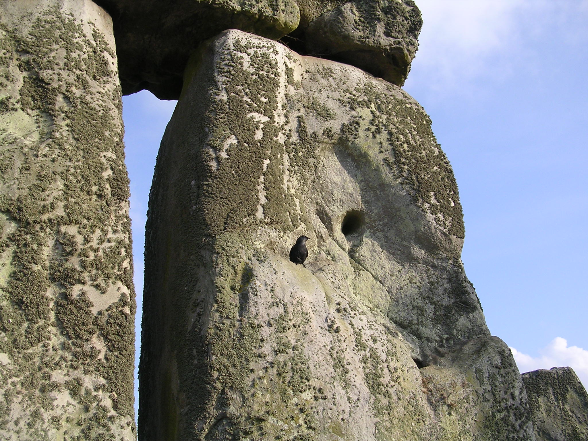 Photo showing how birds have exploited the cavities made by erosion from the time when all the megaliths where laying down. Photo taken inside the Stonehenge circle at 6:47 PM GMT, April 23, 2005 by Kristian H Resset, Norway